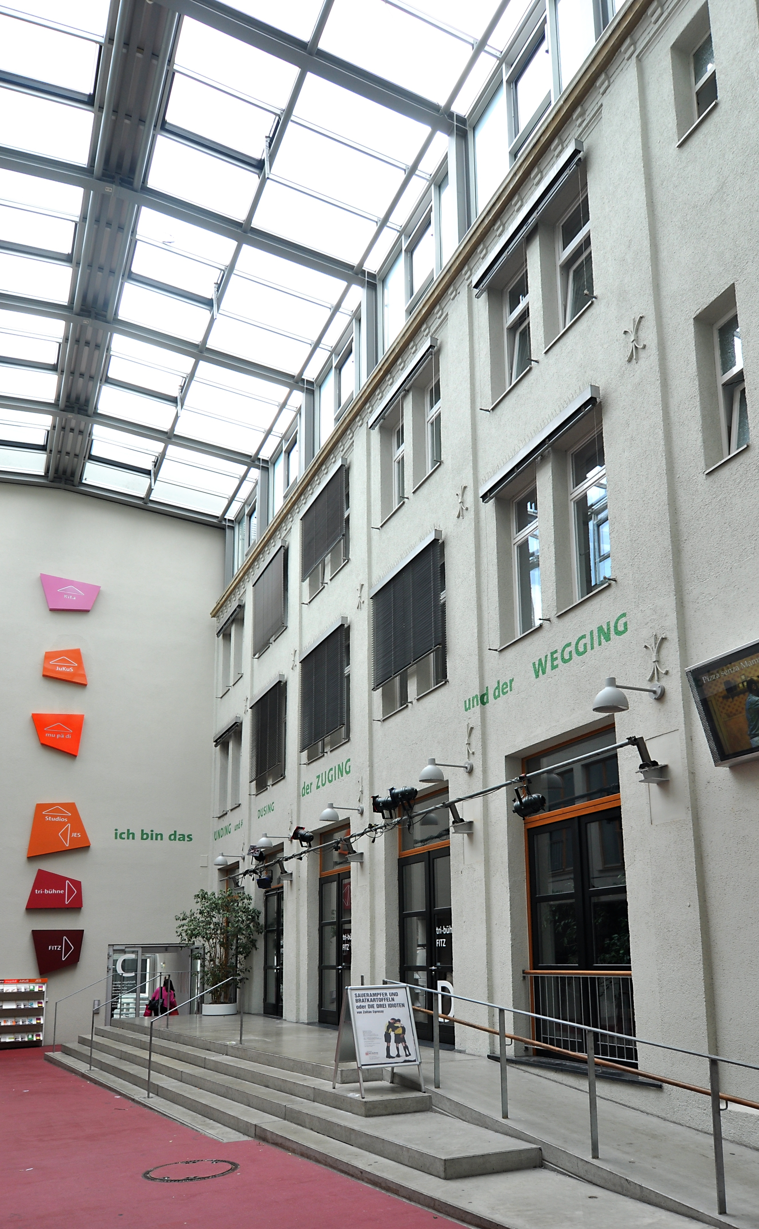 Entry of the Theater tri-bühne in the passage Unterm Tagblattturm in Stuttgart